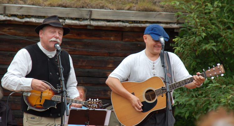 Svein Arild Johnsgård (left) and Evald Kristoffer Langsjøvold (right) from Norwegian band Eau De Vill performing at Tolga summer of 2008